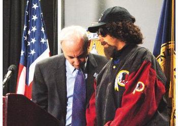 Larry Cohen and a disguised T-Mobile worker at a press conference.